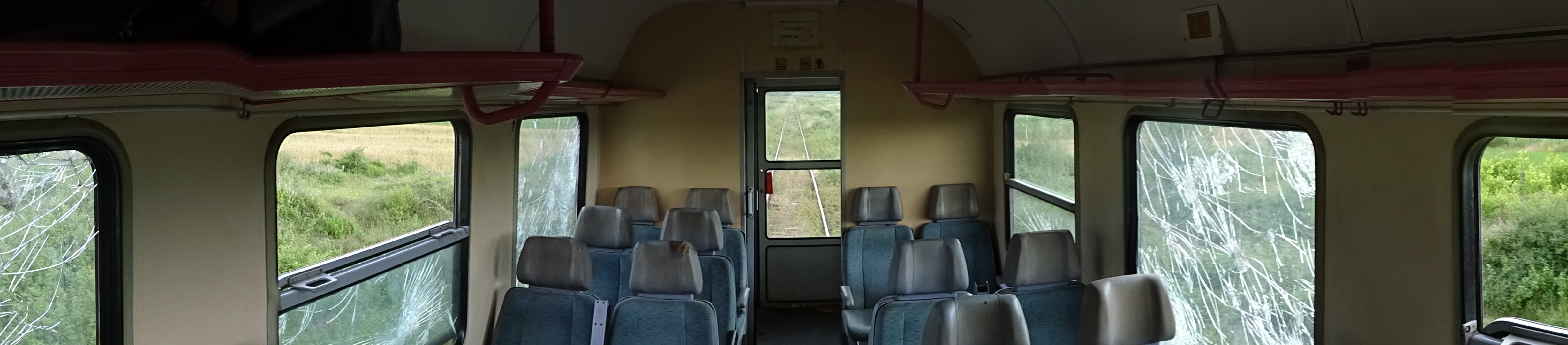 Inside a train in albania. Line from Vora to Shkodra.